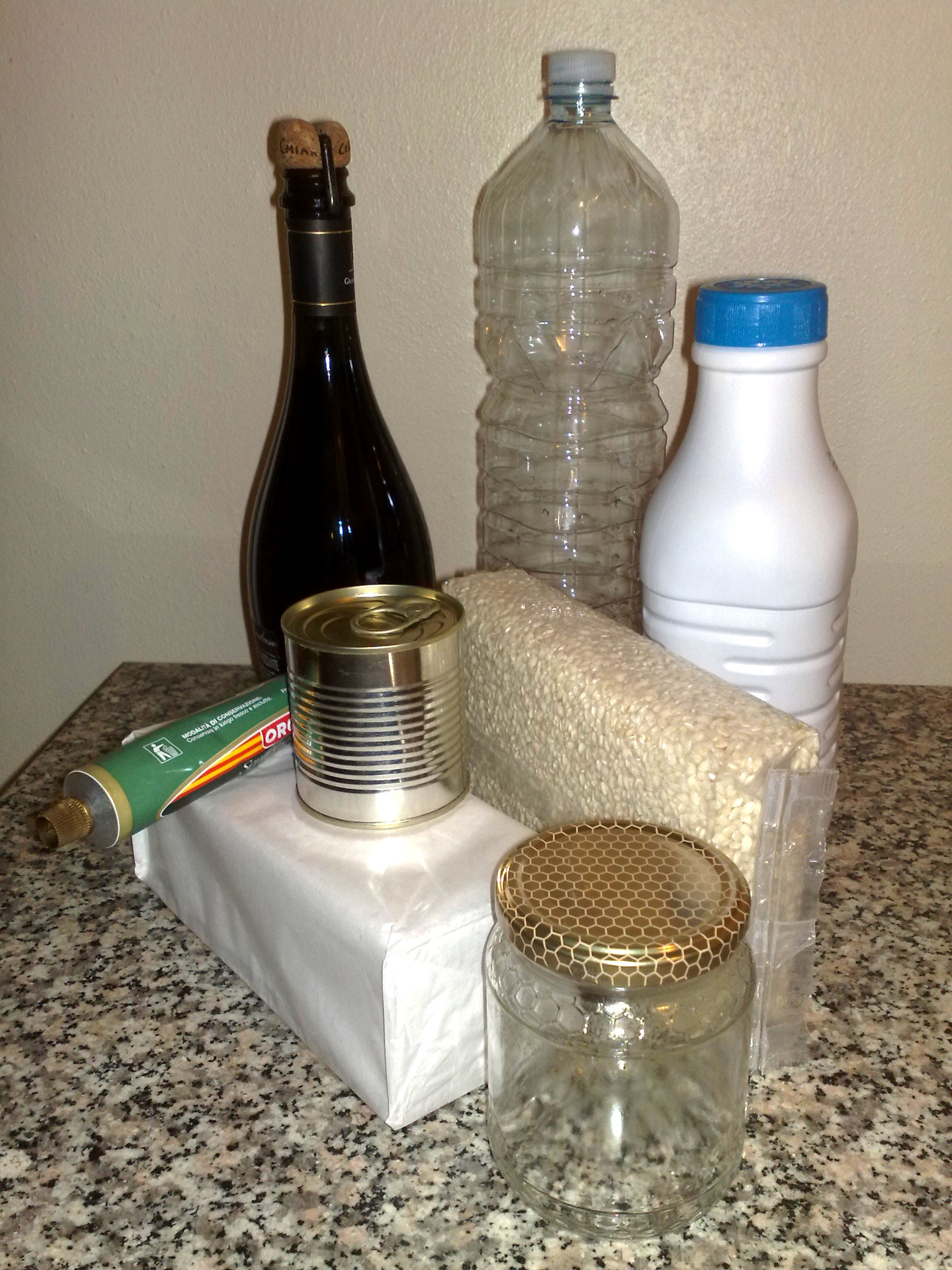 Food packages